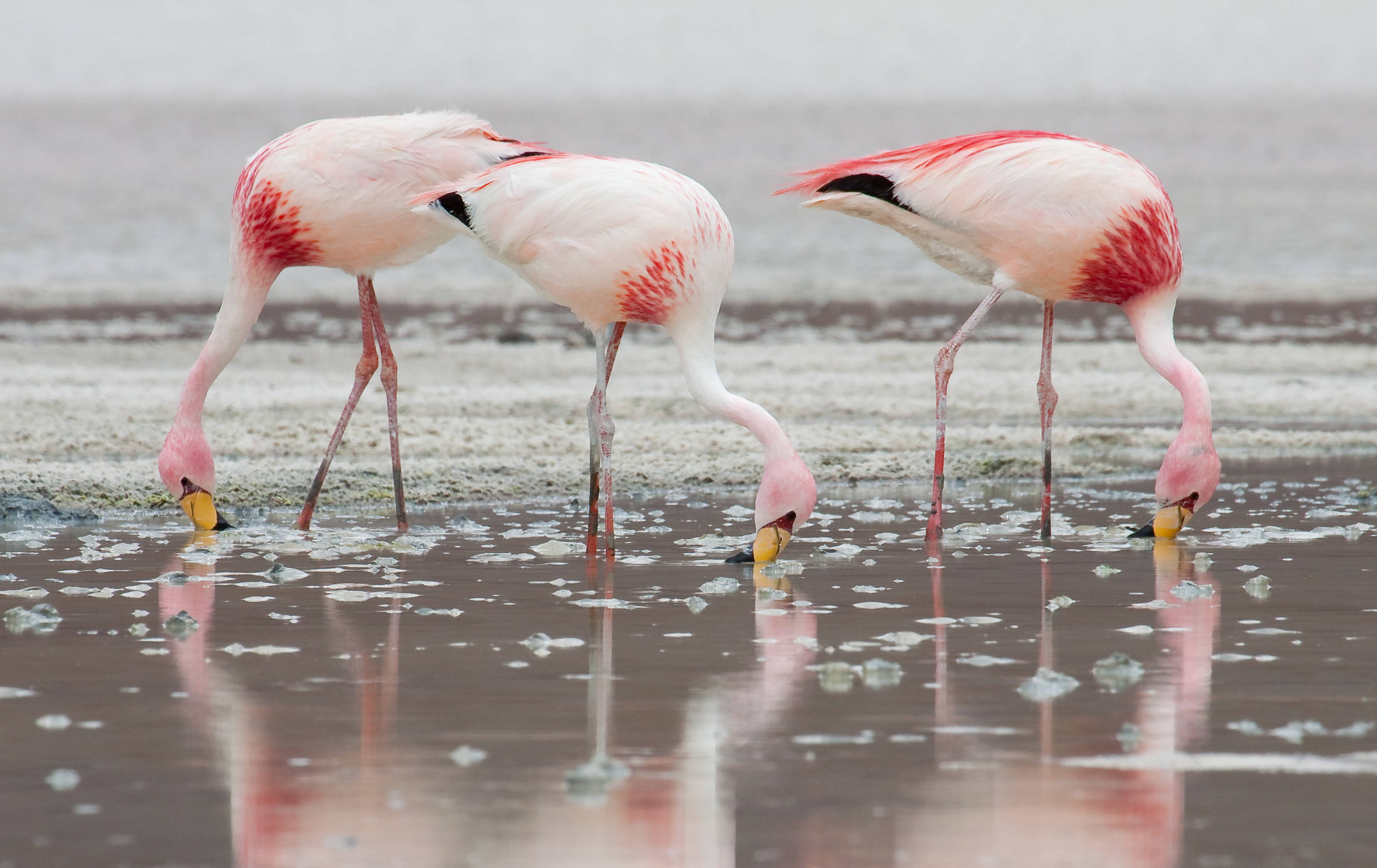 Phoenicoparrus jamesi, a group of James's Flamingos at Laguna Hedionda in Bolivia.